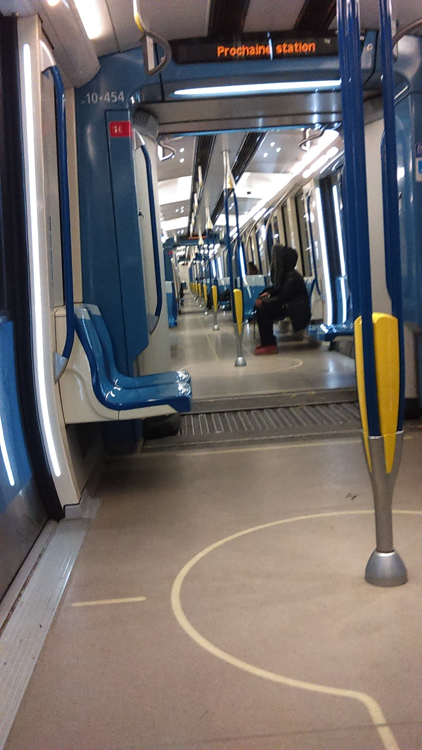 A nearly-deserted MPM-10 subway on the Montreal Metro's Orange Line, at rush hour, on March 15 2020 - the early days of the COVID-19 shutdown. In April 2019, crowding on the Orange Line had been considered a public health issue.